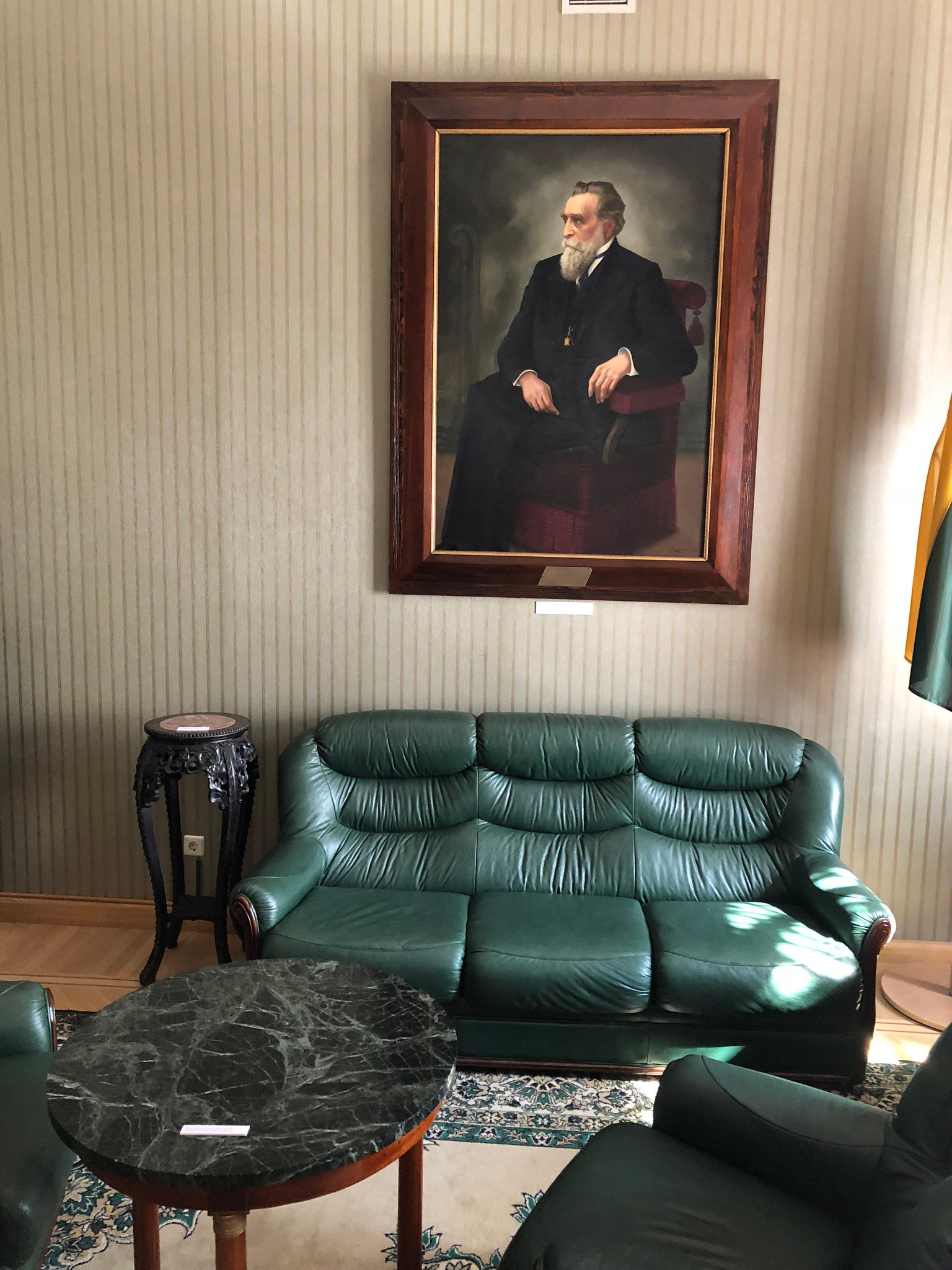 Presidential work room in the Presidential Palace in Kaunas (second floor). Painting depicts Jonas Basanavičius.